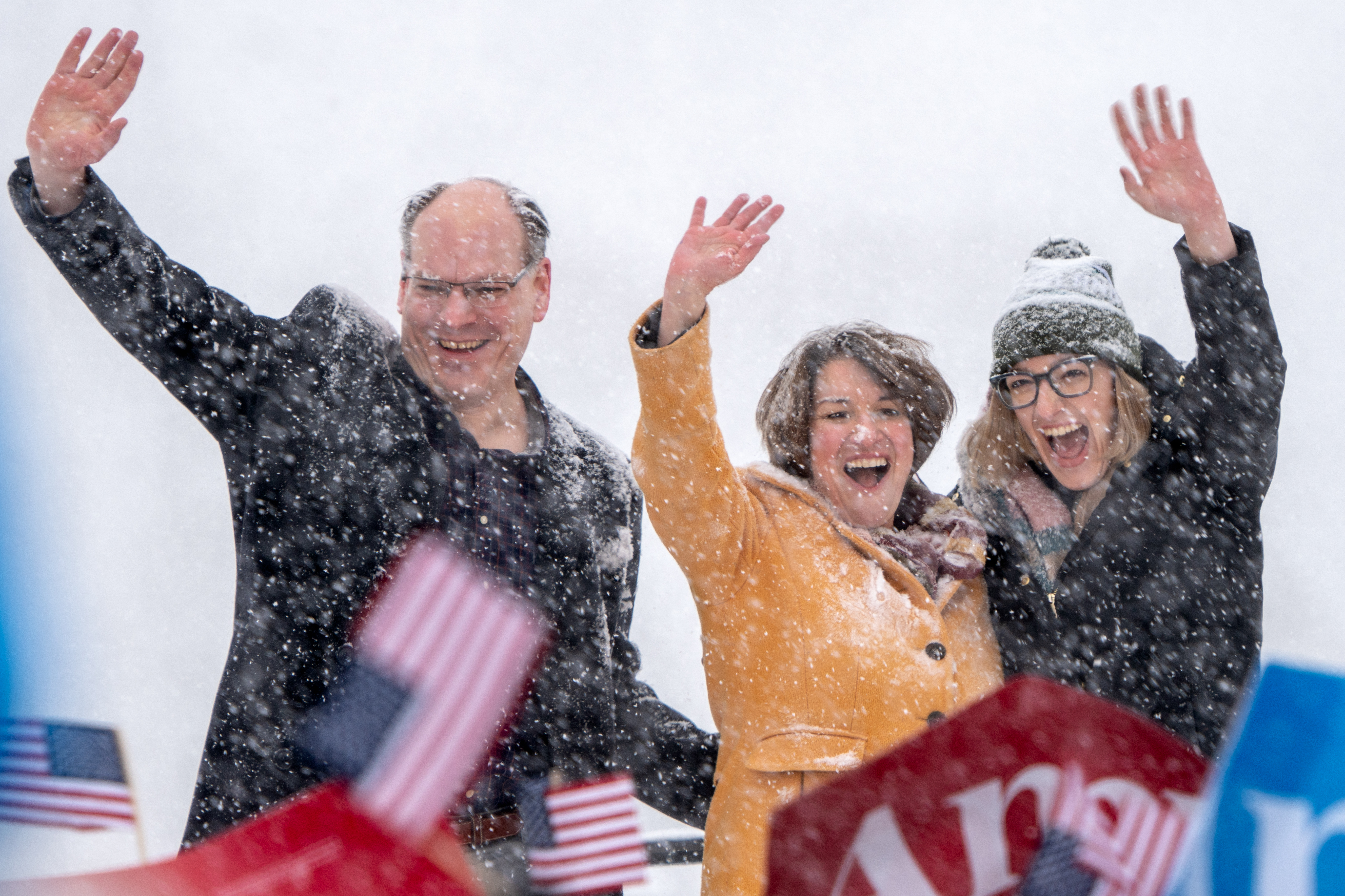 Amy Klobuchar with her husband John and daughter Abigail at her side, waves to the crowd after announcing her bid for the presidency at Boom Island Park in Minneapolis, Minnesota.